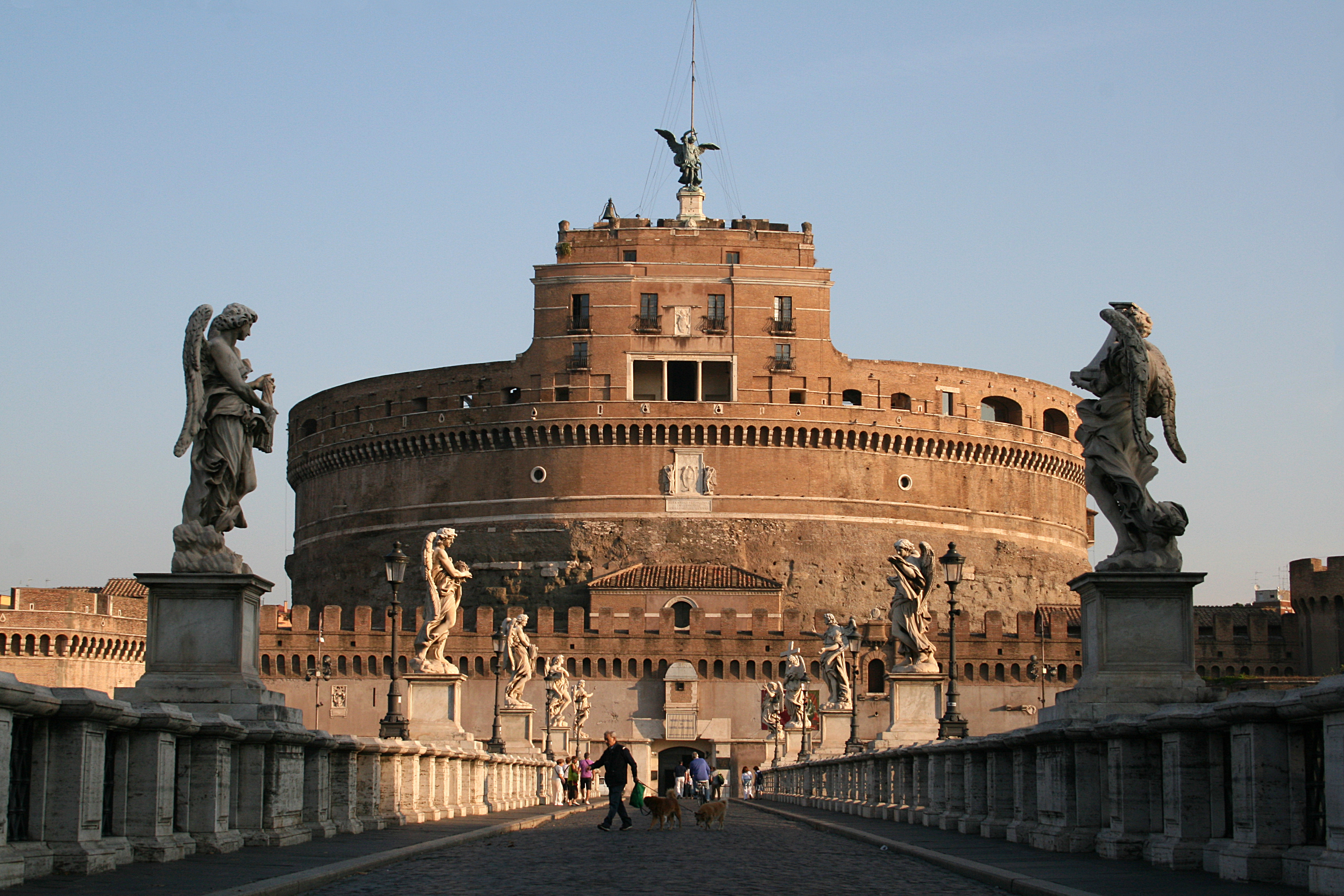 The bridge and the Castel Sant'Angelo in Rome, Italy.